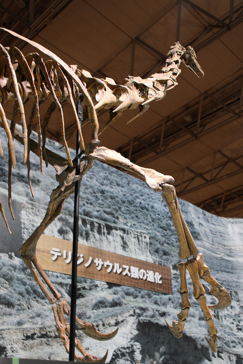 Nothronychus - 02